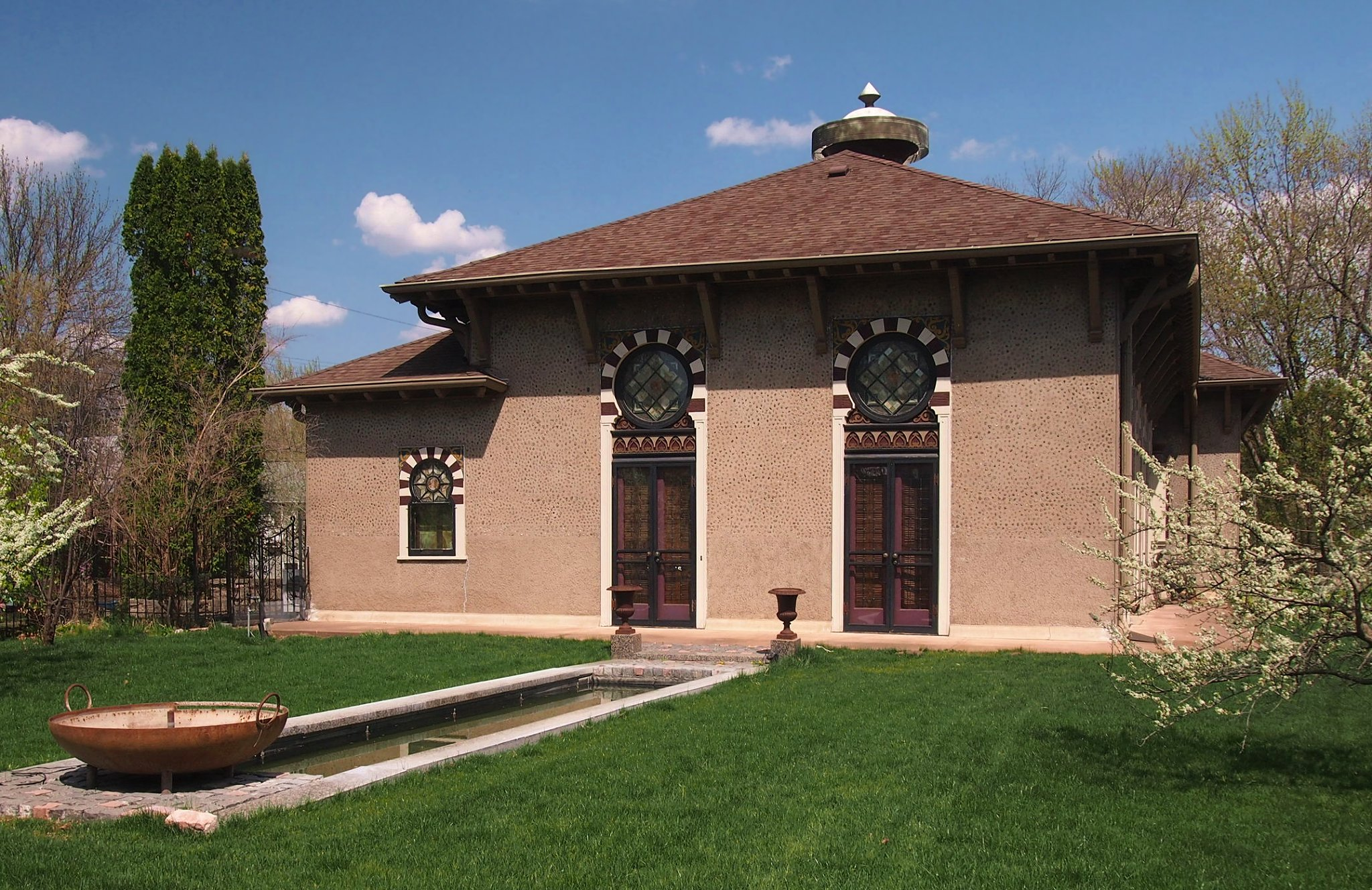 William Sauntry Recreation Hall, 625 N 5th St, Stillwater, Minnesota, USA. Viewed from the southwest.